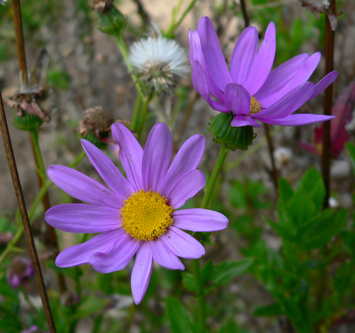 Photo of Senecio glastifolius at the San Francisco Botanical Garden